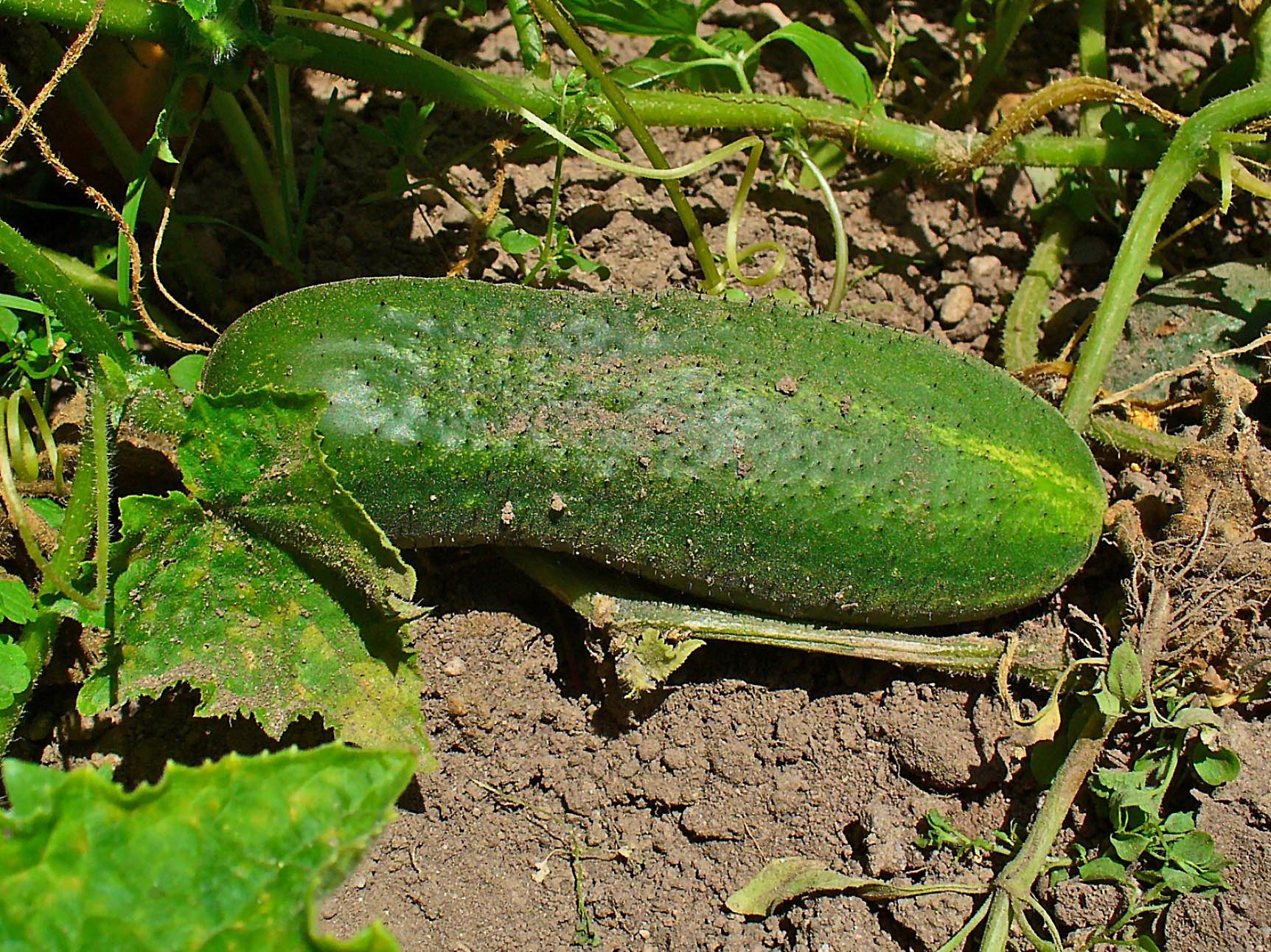 Cucumis sativus, Cucurbitaceae, Cucumber, fruit. The fruit is used in homeopathy as remedy: Cucumis sativus (Cucum.)